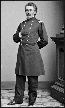 photo of Thomas A. Davies (1809-1899)